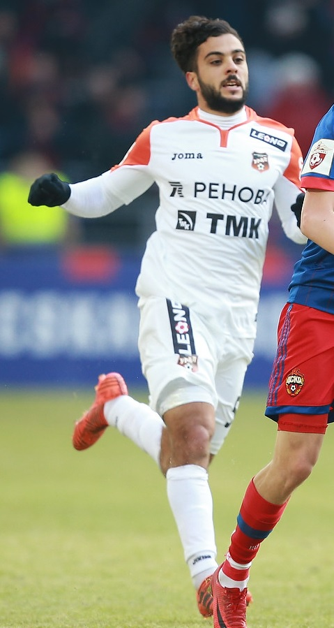 Othman El Kabir with FC Ural Yekaterinburg in a gamea against PFC CSKA Moscow.